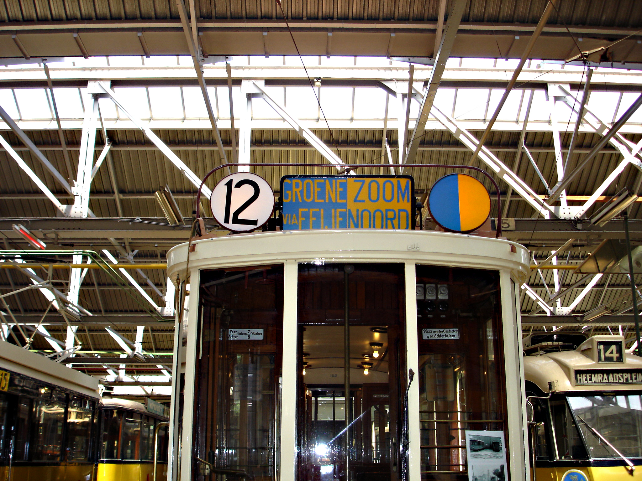 Route plate on old tram,Rotterdam, The Netherlands.